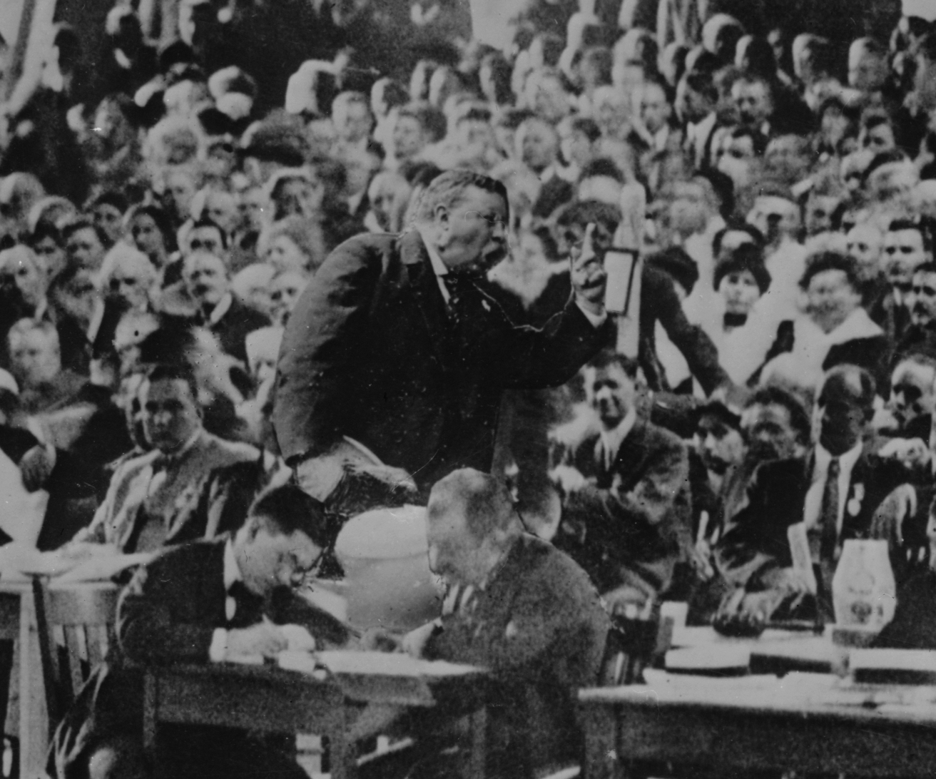 Roosevelt speaking in convention hall, Chicago